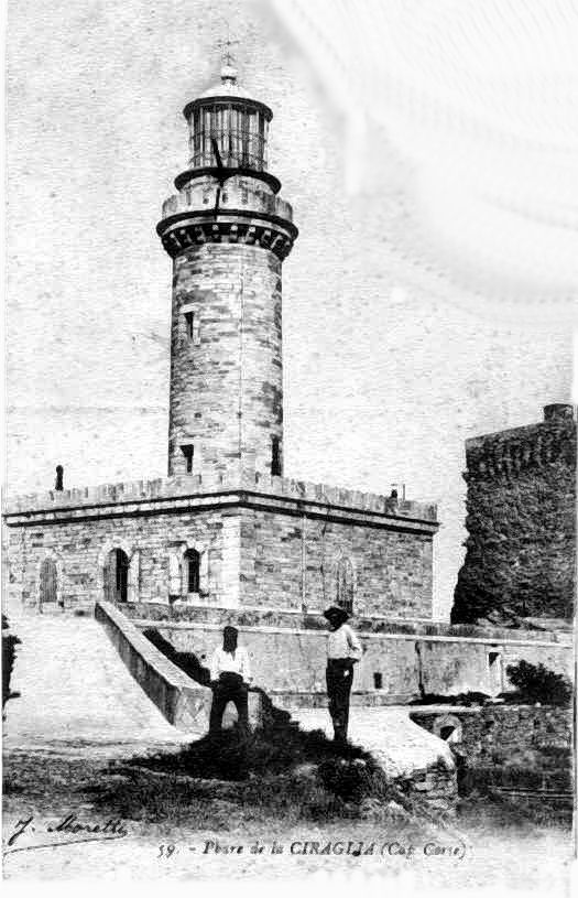 Postcard of lighthouse on Giraglia, Corsica about 1900. Cap Corse lighthouse